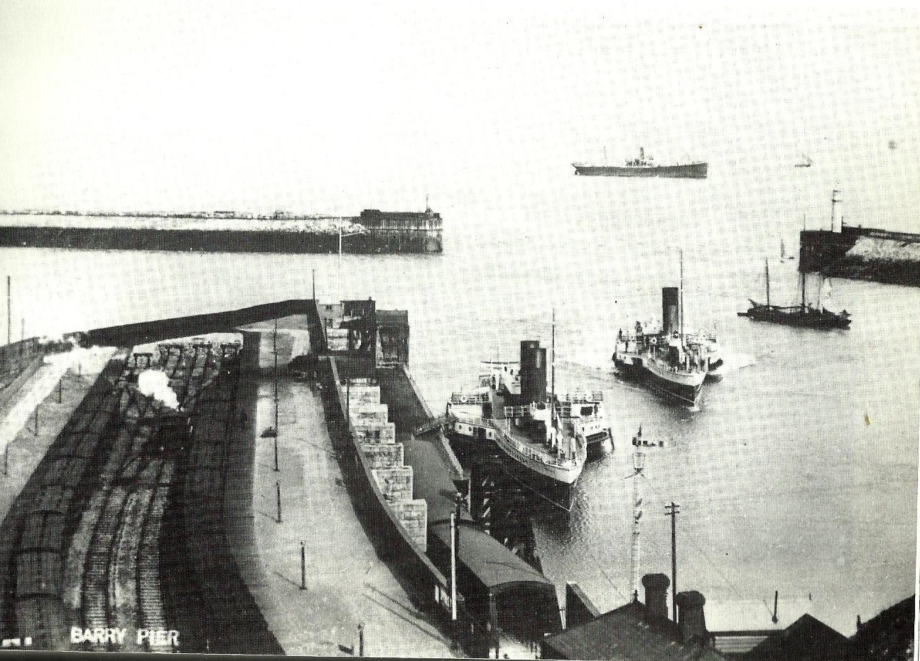 Barry pier and harbour entrance, with paddle steamers of Barry Railway Company's Red Funnel Fleet in c.1908.